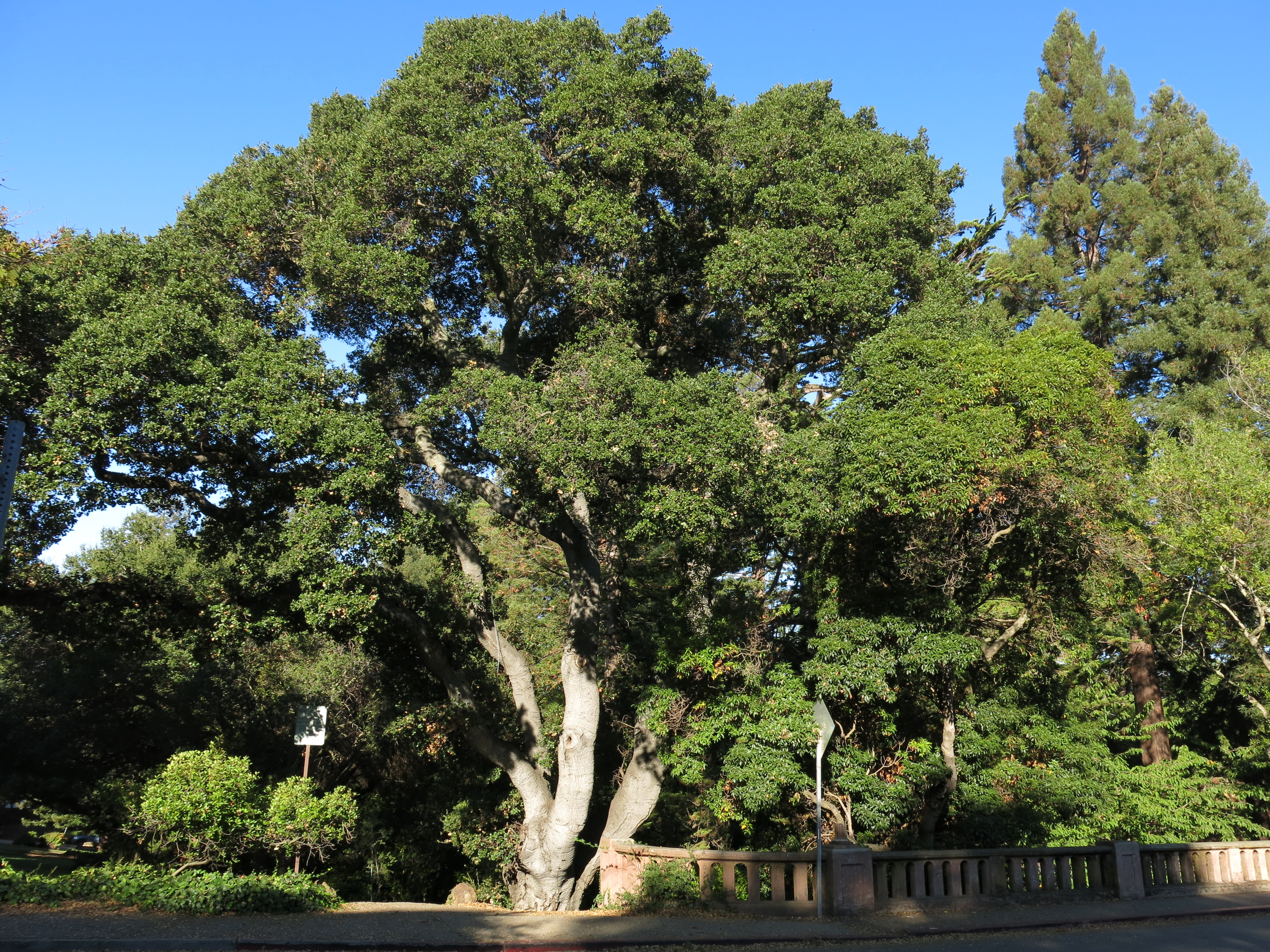 Oaktree at the entrance of Live Oak Park